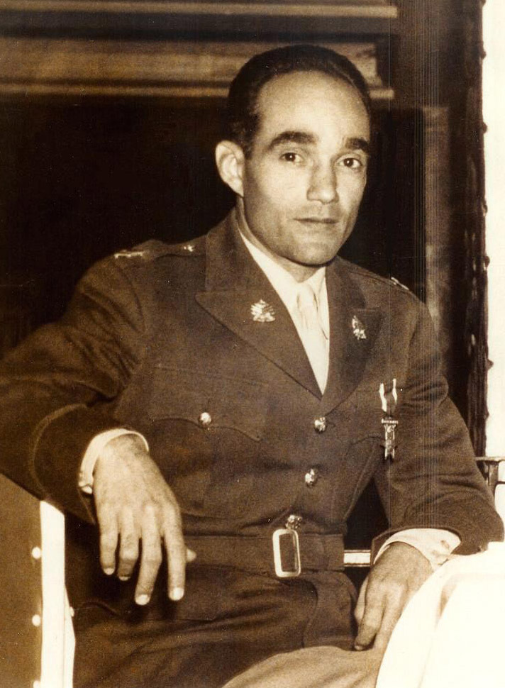 This is an image of Alix Pasquet